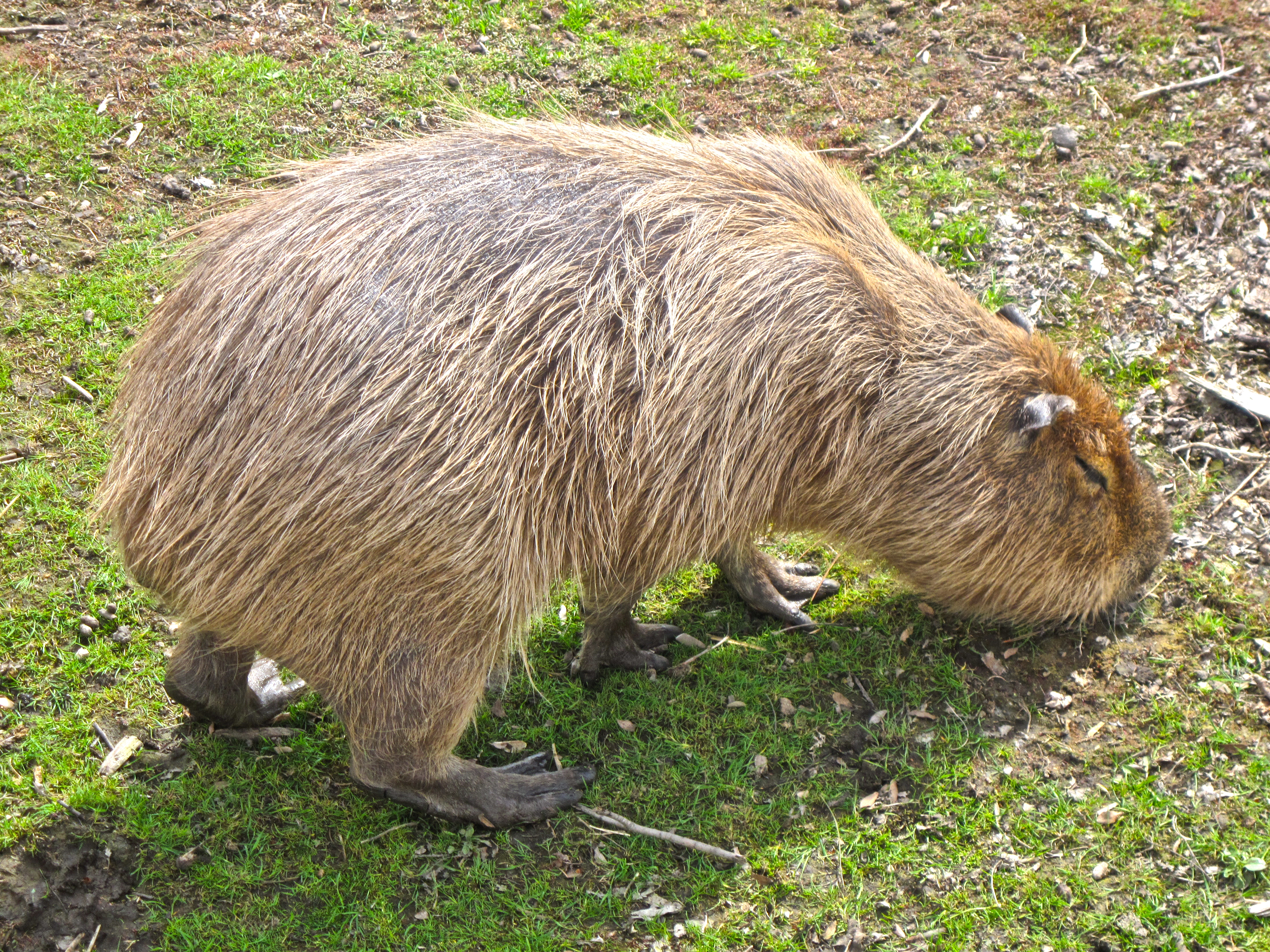 A Capybara at Detroit Zoo, Michigan, USA.